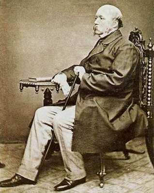 As subject of the picture, John Gardner Wilkinson, died in 1875, it is fairly safe to say that the author of this photograph has been dead over 100 years & thus the photo is Public Domain. Two sources amongst several found are